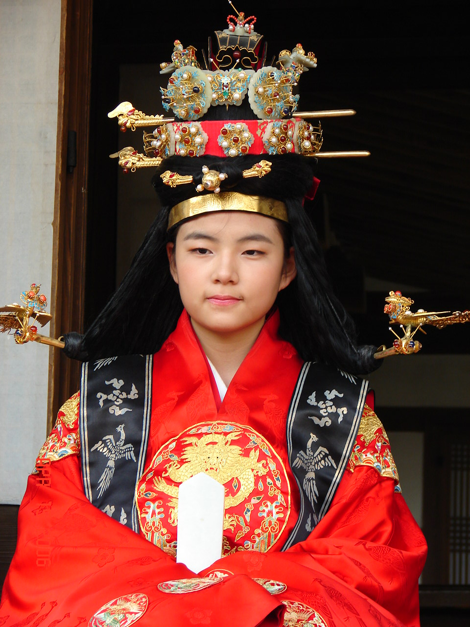 Royal Wedding Ceremony. Reenactment of King Gojong and Empress Myeongseong’s (Queen Min) Royal Wedding Ceremony that took place on the grounds of Unhyeon Palace on March 21, 1866. Unhyeon Palace (운현궁) is the former Korean royal residence of Prince Regent Daewon-gun, ruler of Korea during the Joseon Dynasty in the 19th century, and father of Emperor Gojong. This reenactment takes place in the spring and fall each year.